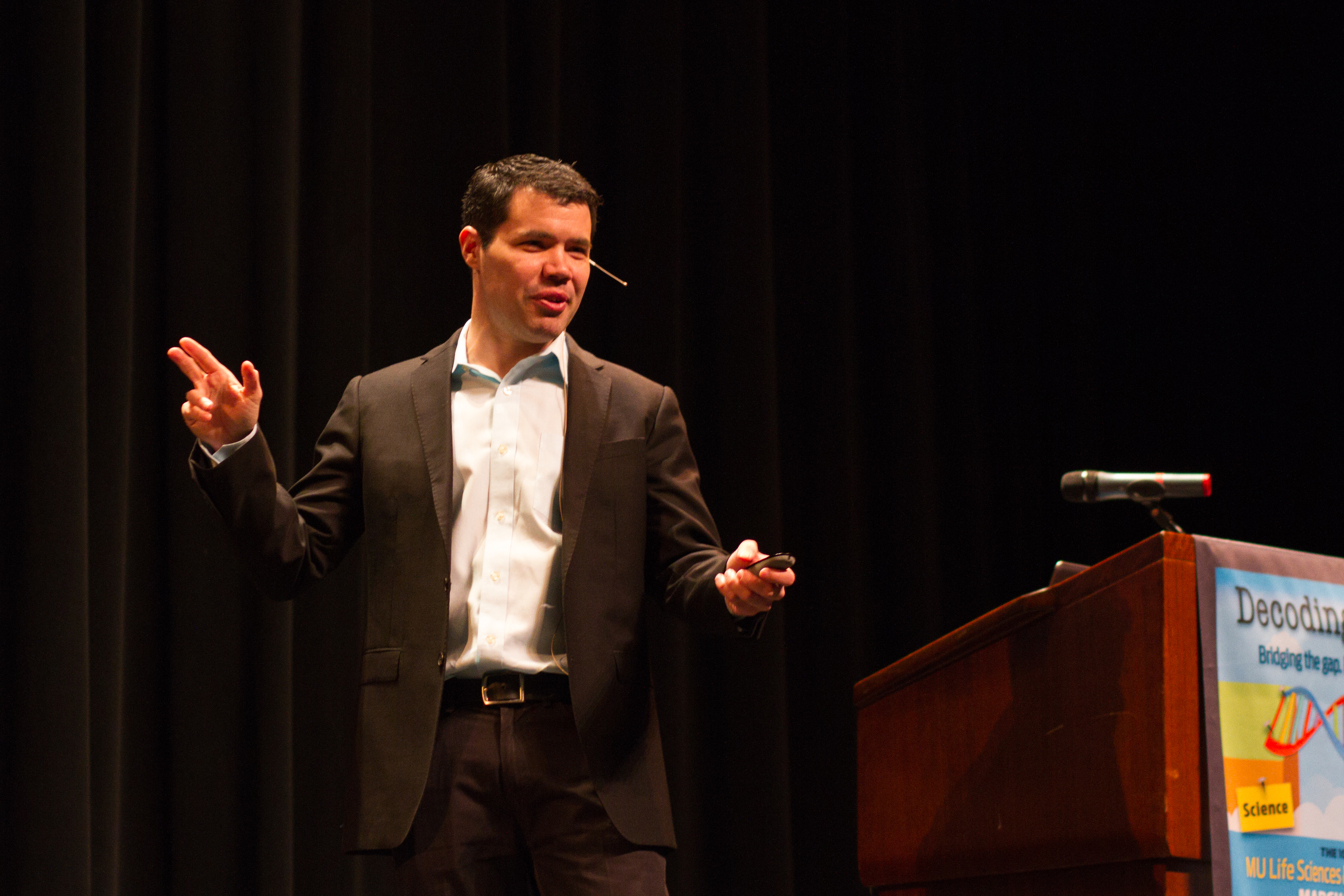 Chris Mooney at the Life Sciences & Society Program Symposium at the University of Missouri.